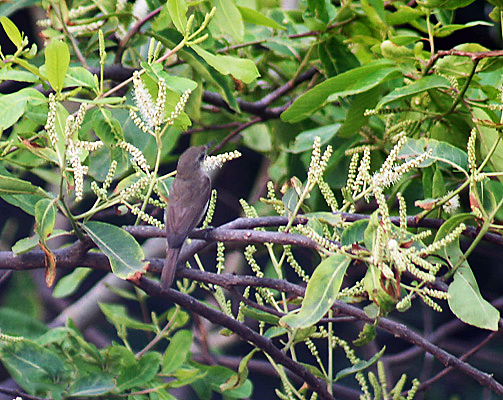 Arjun Terminalia arjuna in Kolkata, West Bengal, India.